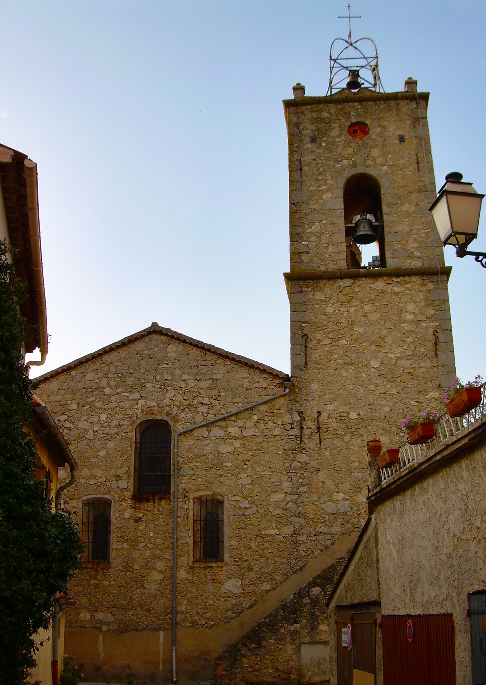 Church of the village "Le Plan-de-la-tour", Var, France